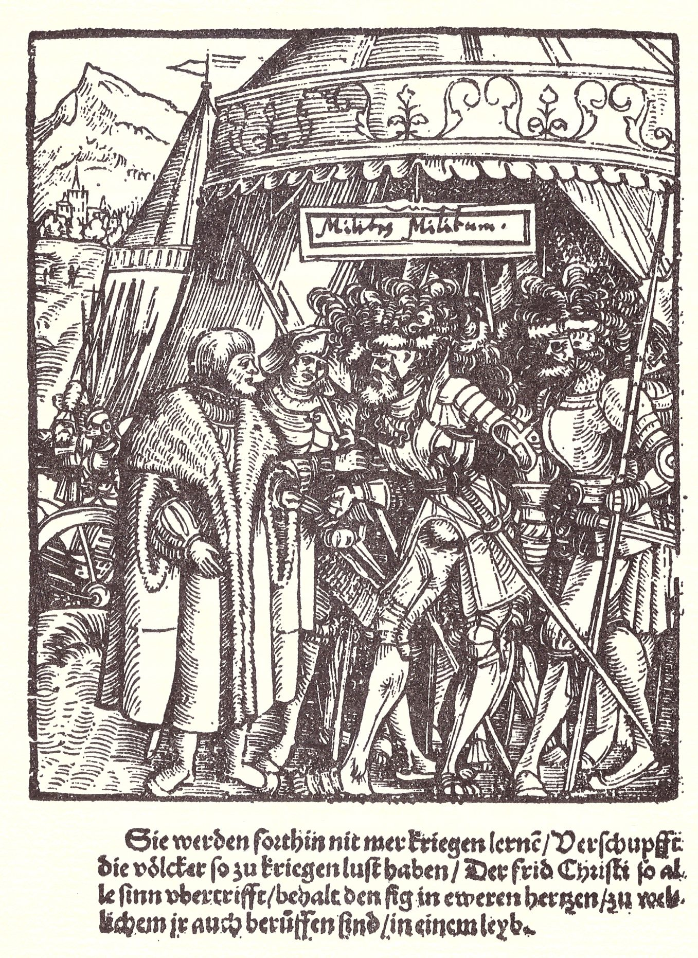 The reverse side of the title of the „Little War-Book of Peace“, Augsburg, 1539.